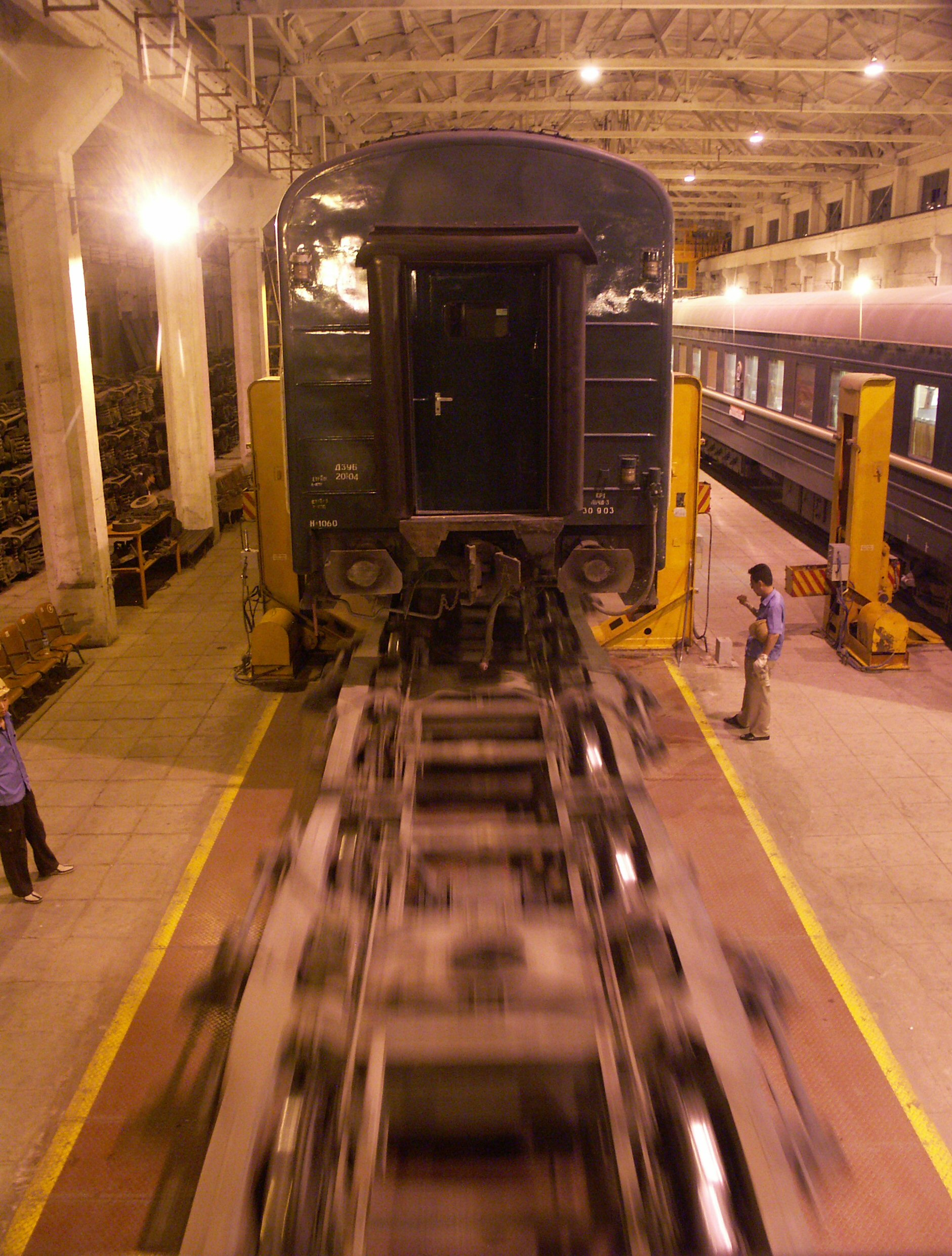 Wheels rolling below an elevated carriage during the wheel changing from Russian to Chinese gauge on the Trans-Mongolian Railway.